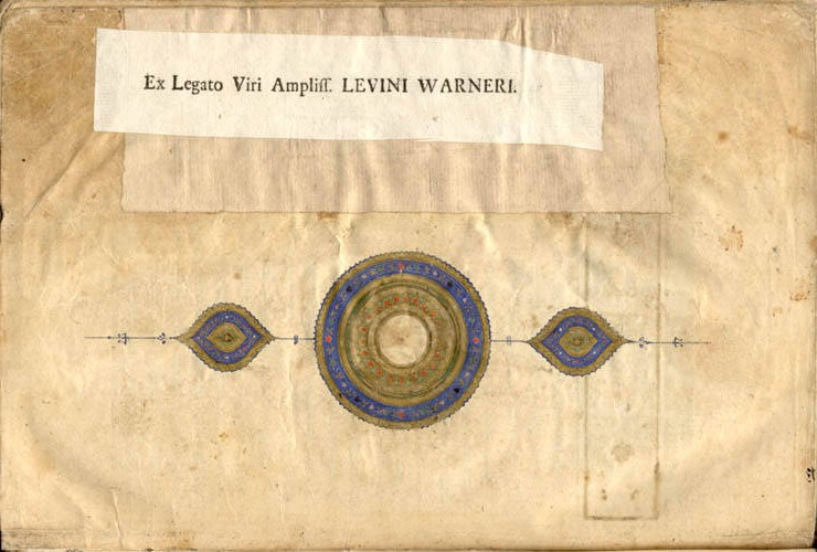 Shahnama (Leiden University Library, The Netherlands. Or. 494, f1a). Oriental manuscript, donated to the library by Levinus Warner. Ex libris Levinus Warner ("Ex legato viri ampliss. Levini Warneri")